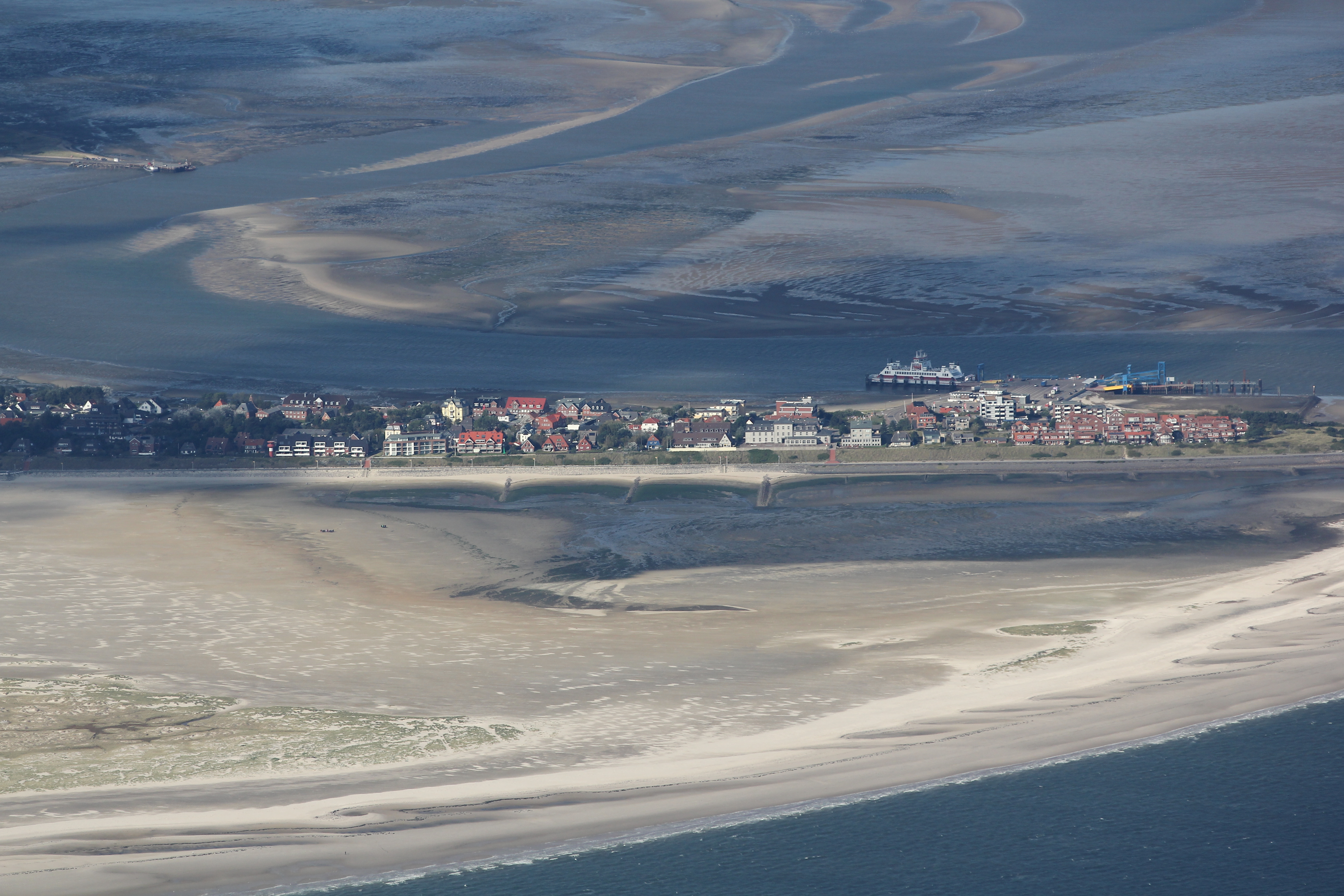 Aerial photograph of Wittdün on the island of Amrum in northern frisia.